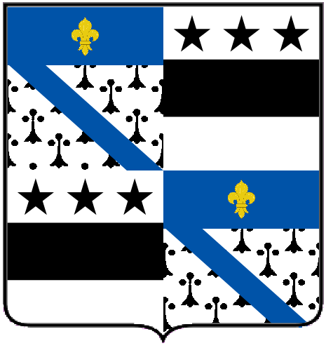 Shield of arms of The Lord O'Hagan